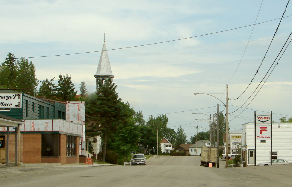 Verner (part of Municipality of West Nipissing), Ontario, Canada